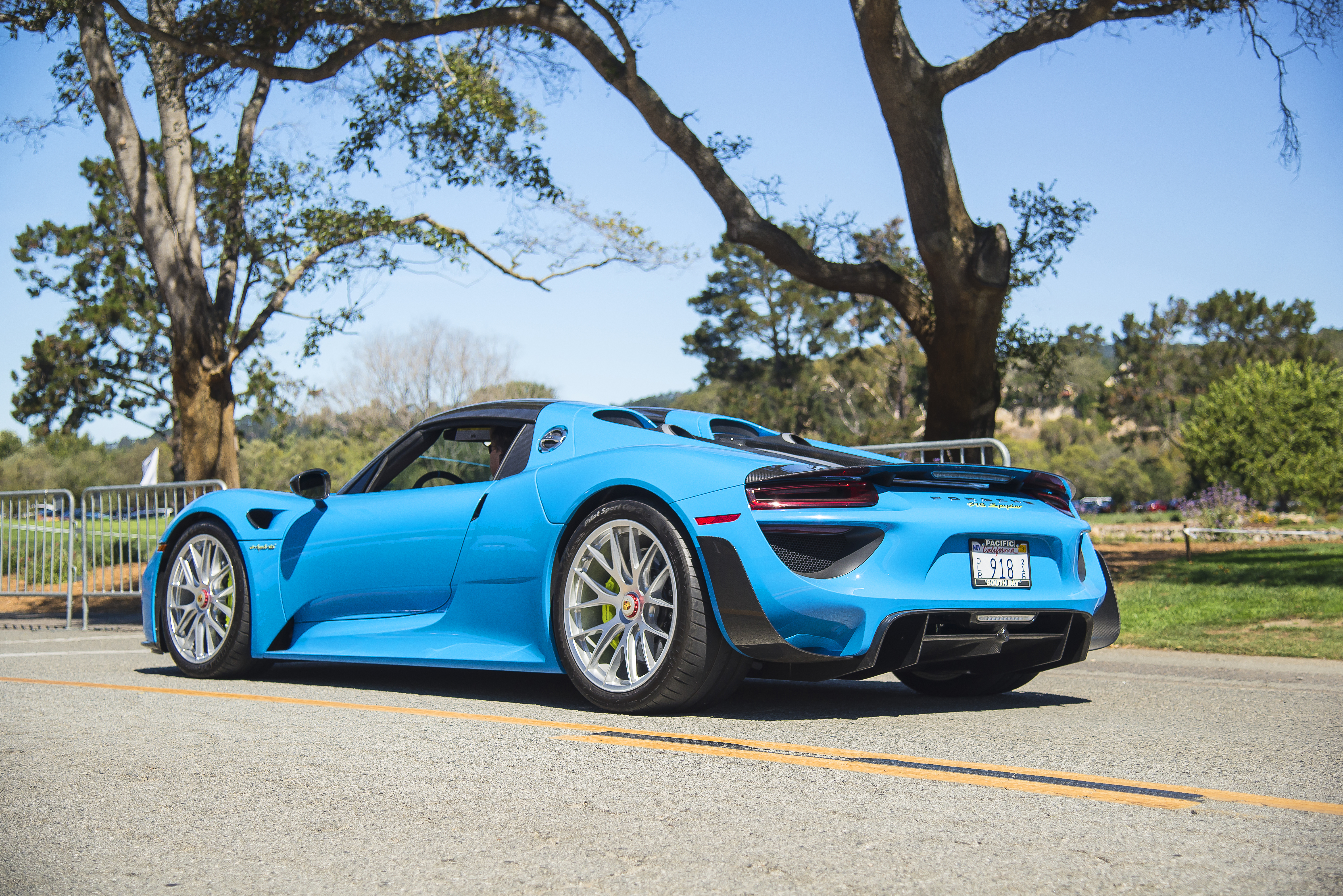 Riviera Blue Porsche 918 with Weissach Package pulling up to The Quail during Monterey Car Week.